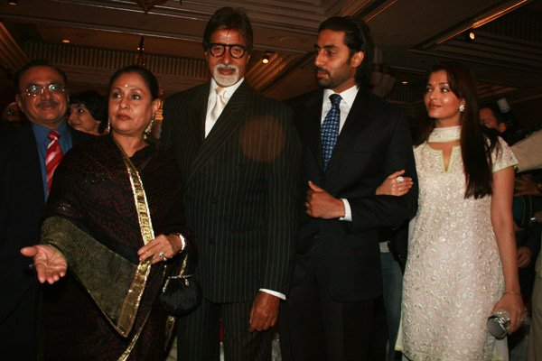 Bachchan family at a party hosted by London Mayor Ken Livingstone